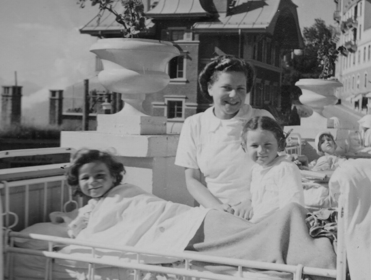 Liselotte Marshall (née Rosenberg), circa 1940 (centre, standing) working as a nursing assistant in a children's bone tuberculosis sanatorium in Leysin, Switzerland. Author of the novel "Die verlorene Sprache" (Frankfurt, 1998) ["Tongue-Tied" (London, 2004)]